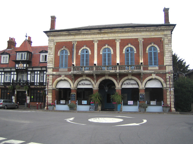 Chertsey: The Old Town Hall Built in 1851 to the design of George Briand, this Italianate style building, with its ground floor arcade open to the street, is now in use as a bar and restaurant operated by 163